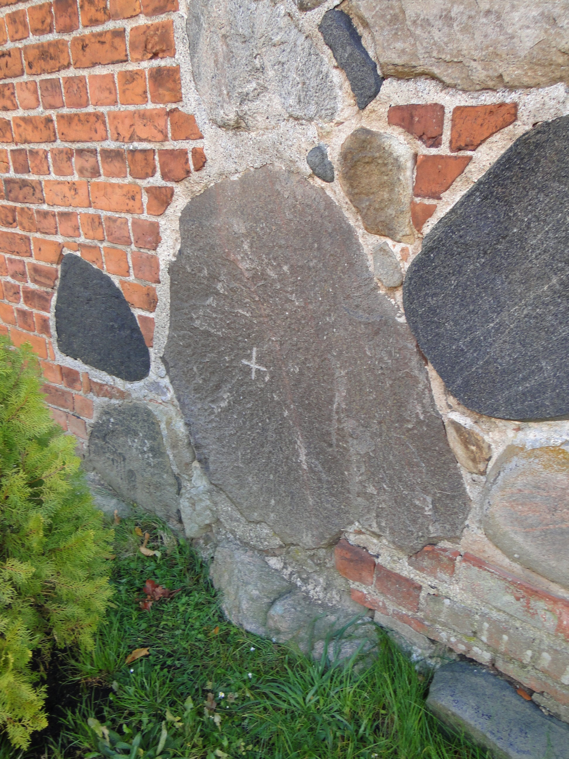 Church in Goldberg, district Ludwigslust-Parchim, Mecklenburg-Vorpommern, Germany